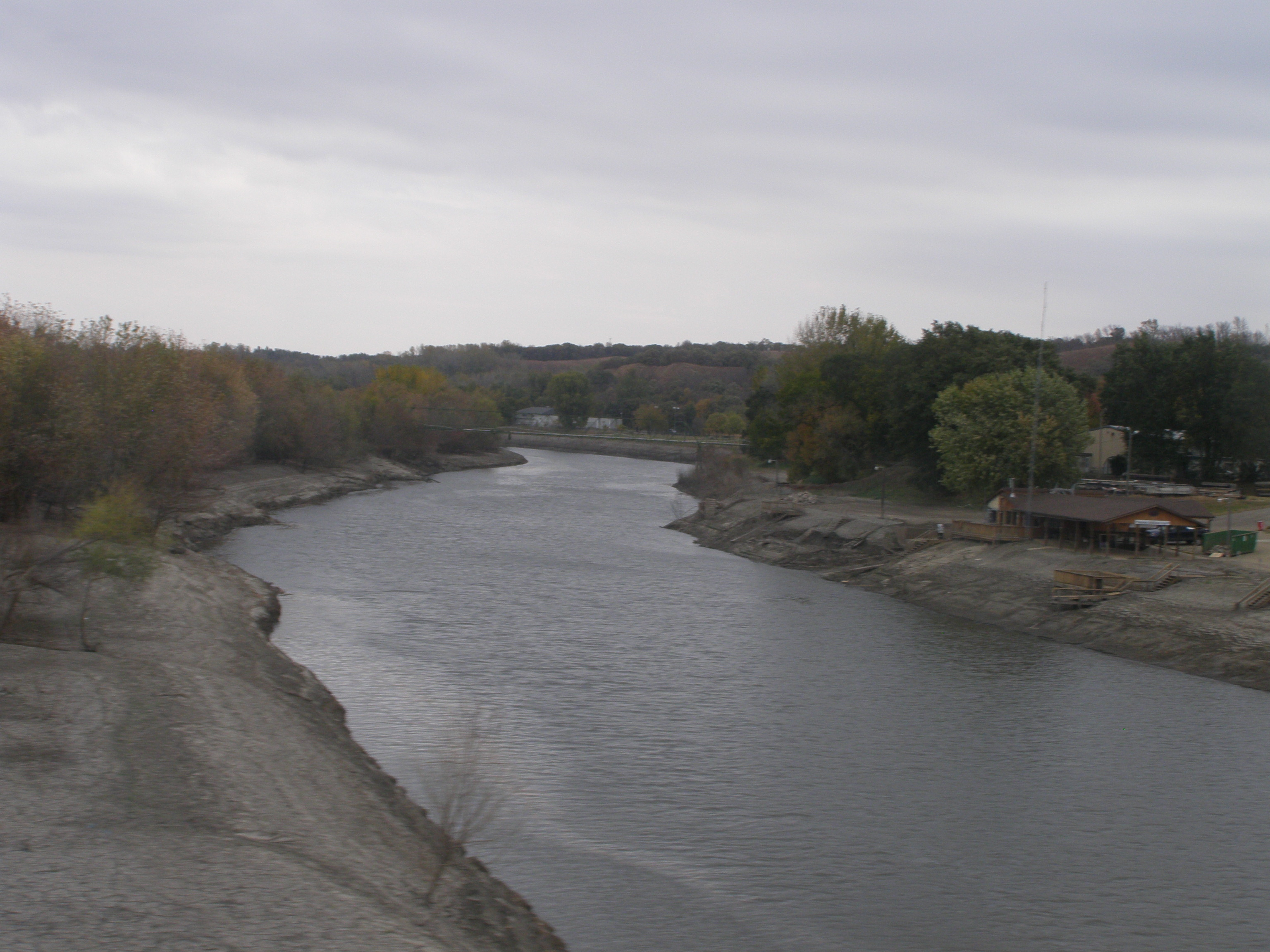 Big Sioux River with North Dakota to the left and Iowa (Sioux City) on the right.